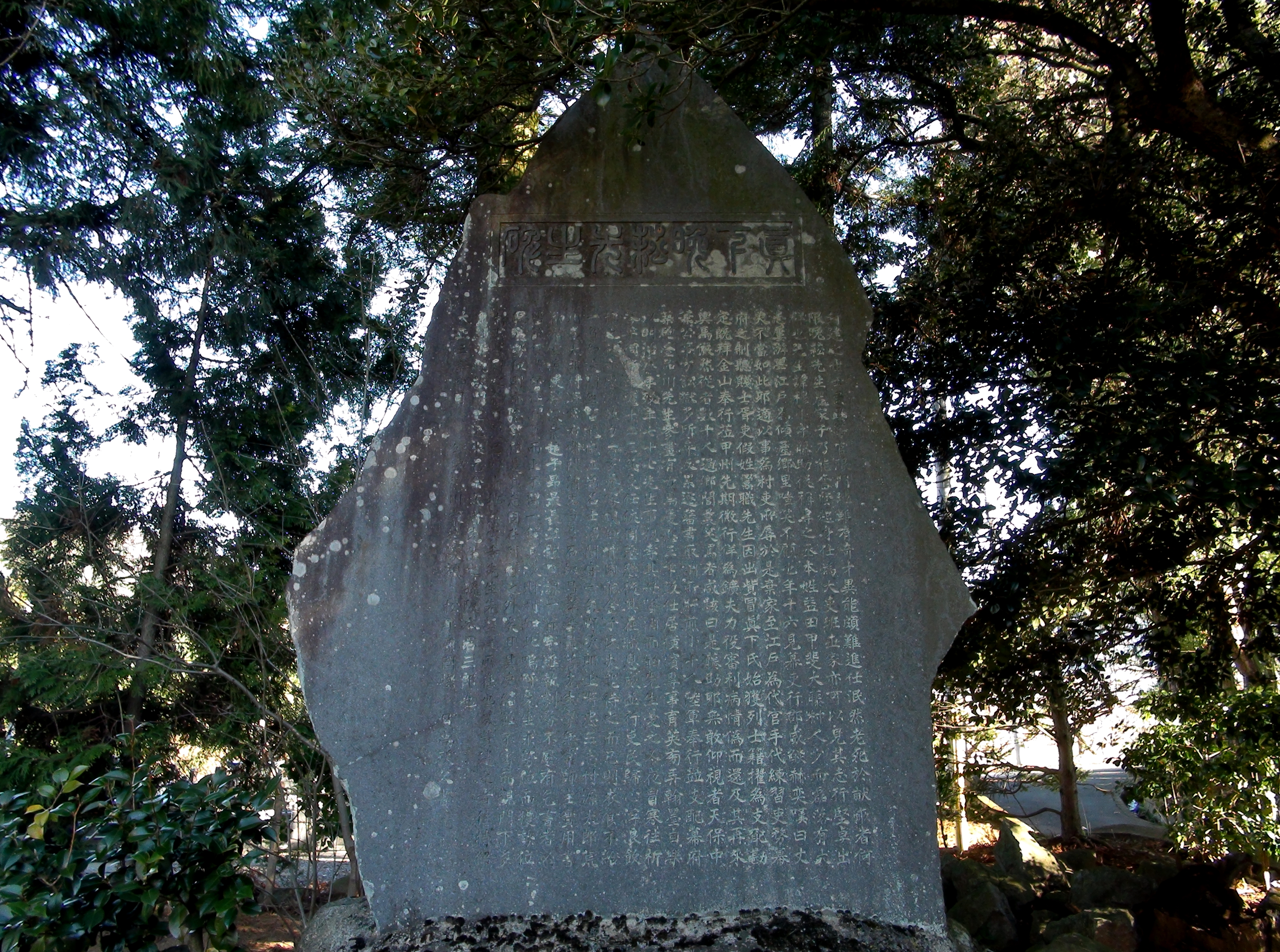 Monument of Bansu Mashimo.Jiunji temple in Koshu,Yamanashi.